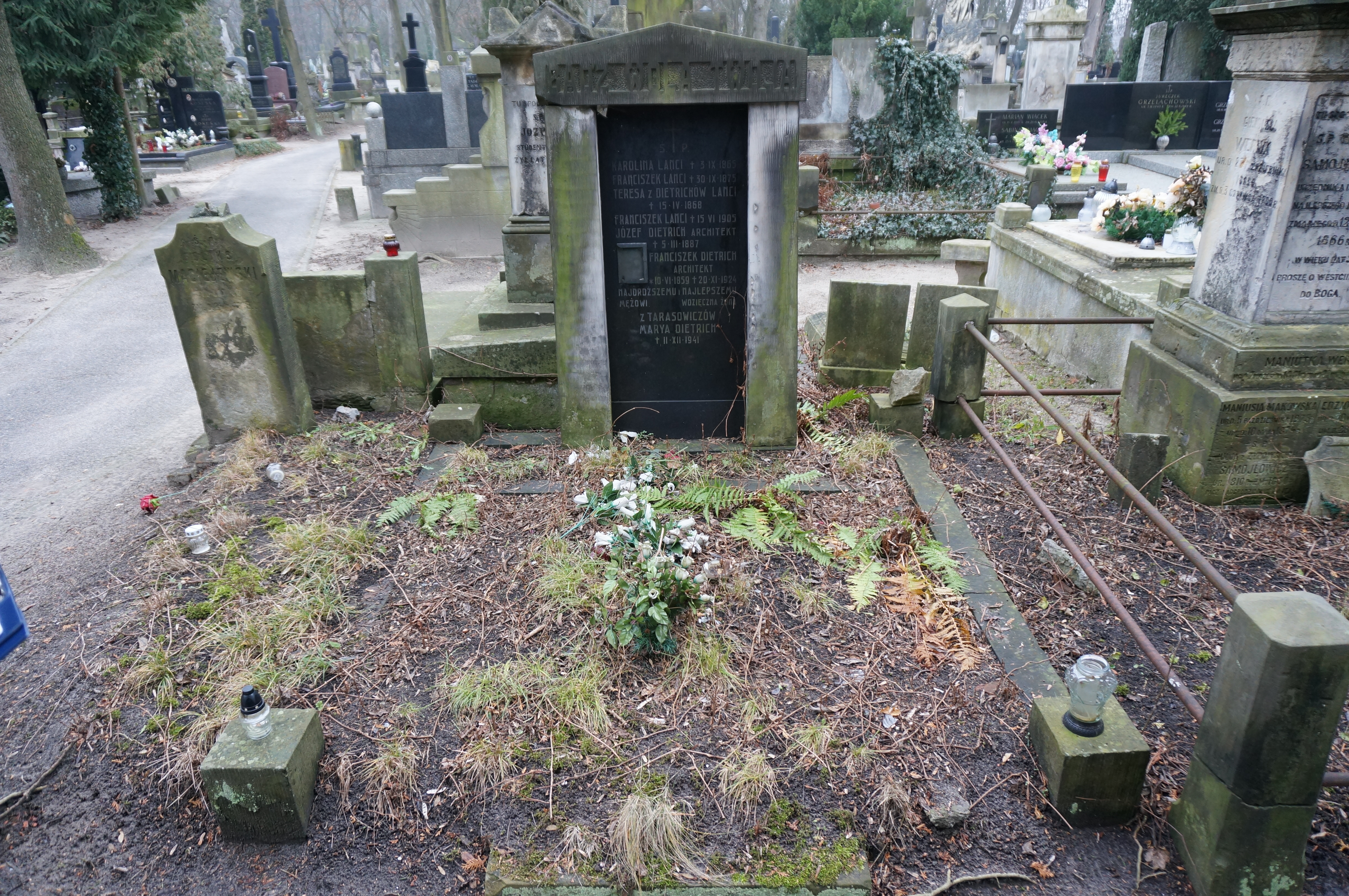 The grave of Franciszek Maria Lanci at the Powązki Cemetery (section 177, row 3, grave 26, 27)